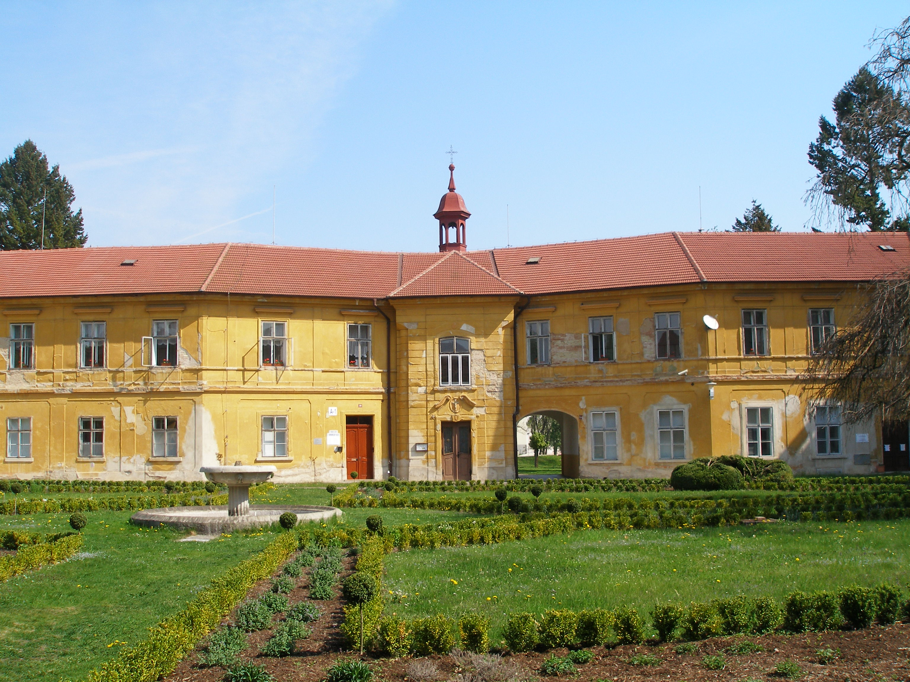 North side courtyard in Horní Beřkovice.